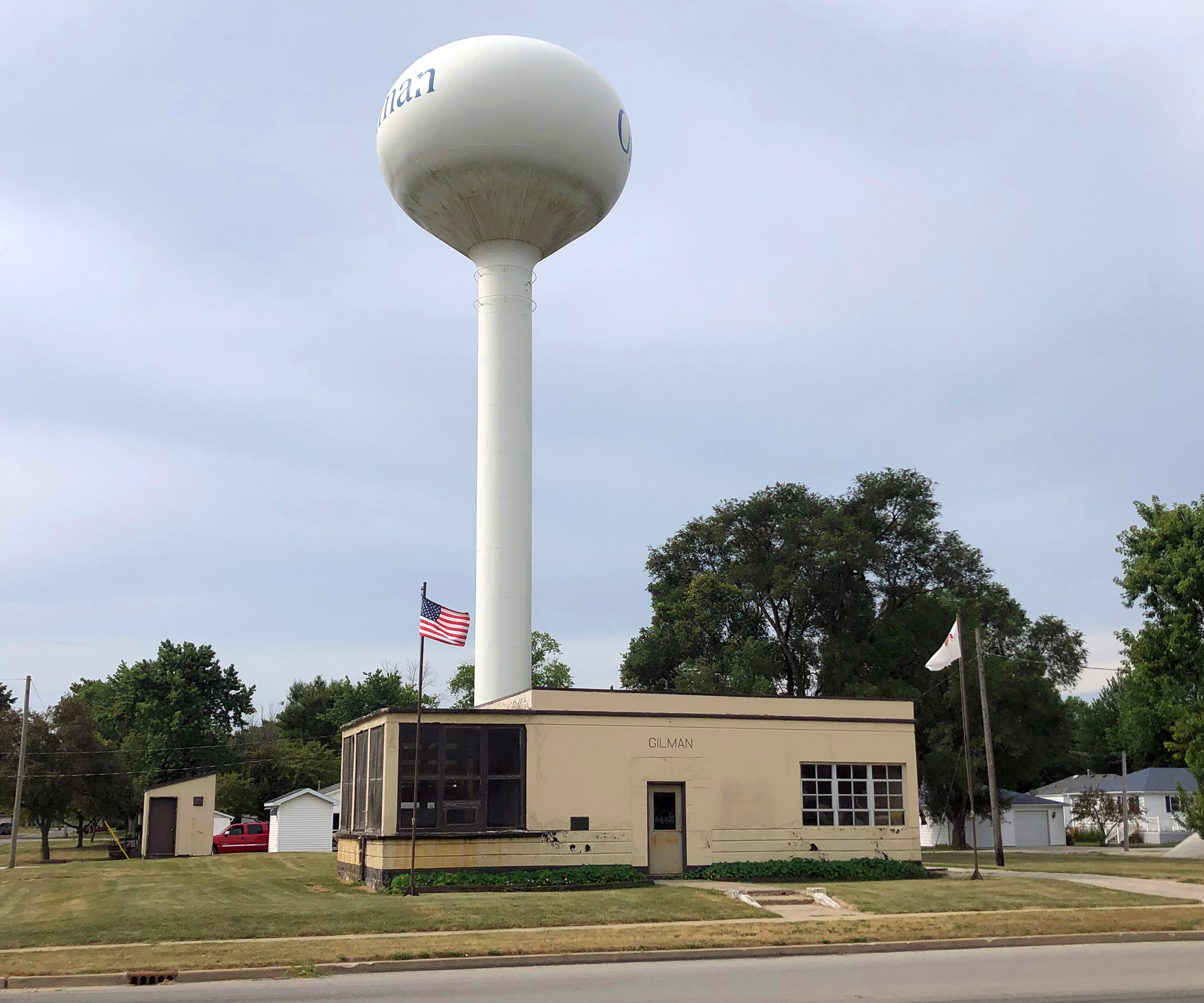 The town hall and water tower of Gilman, Illinois, located along Crescent Street.